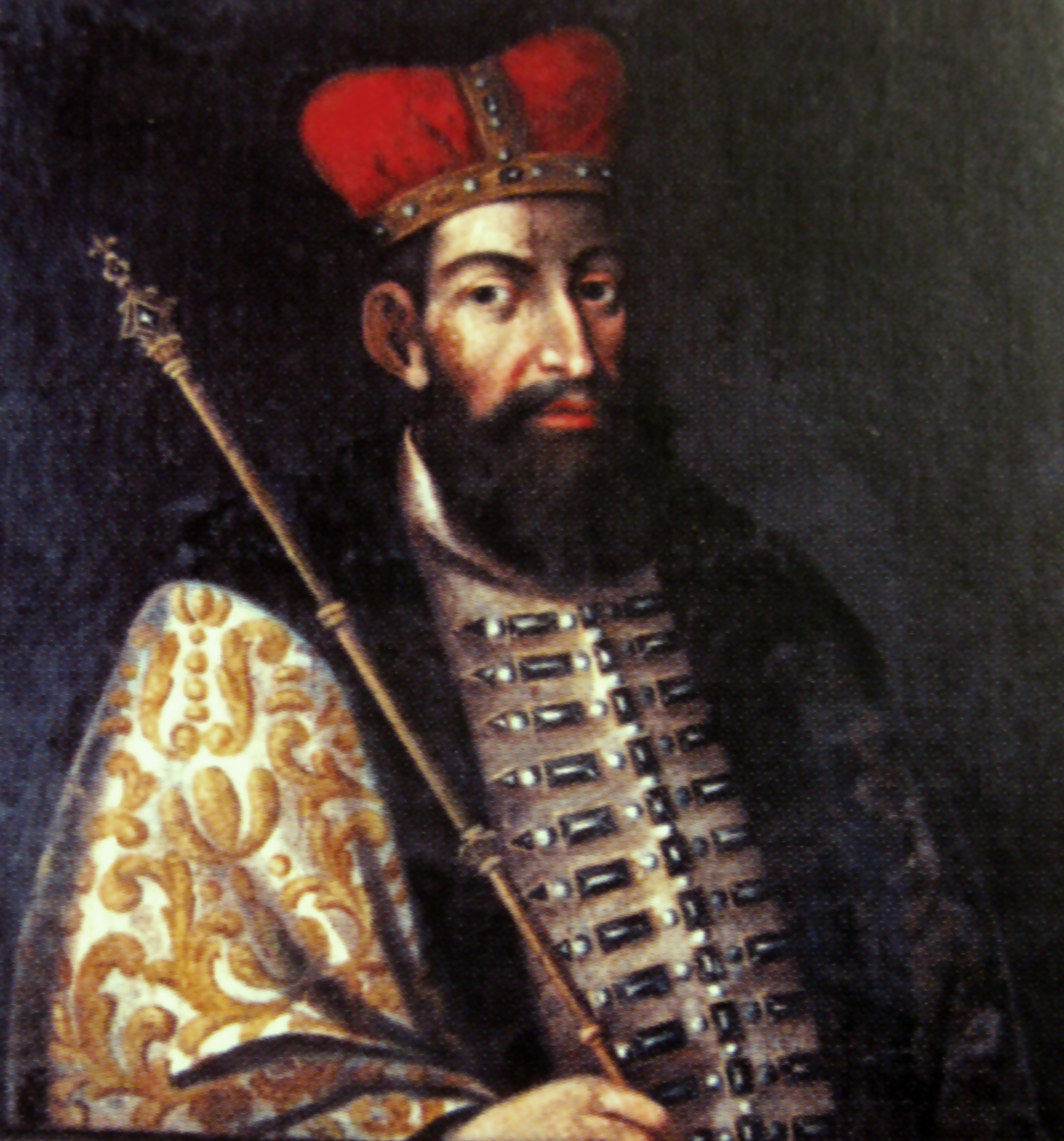 Narymunt